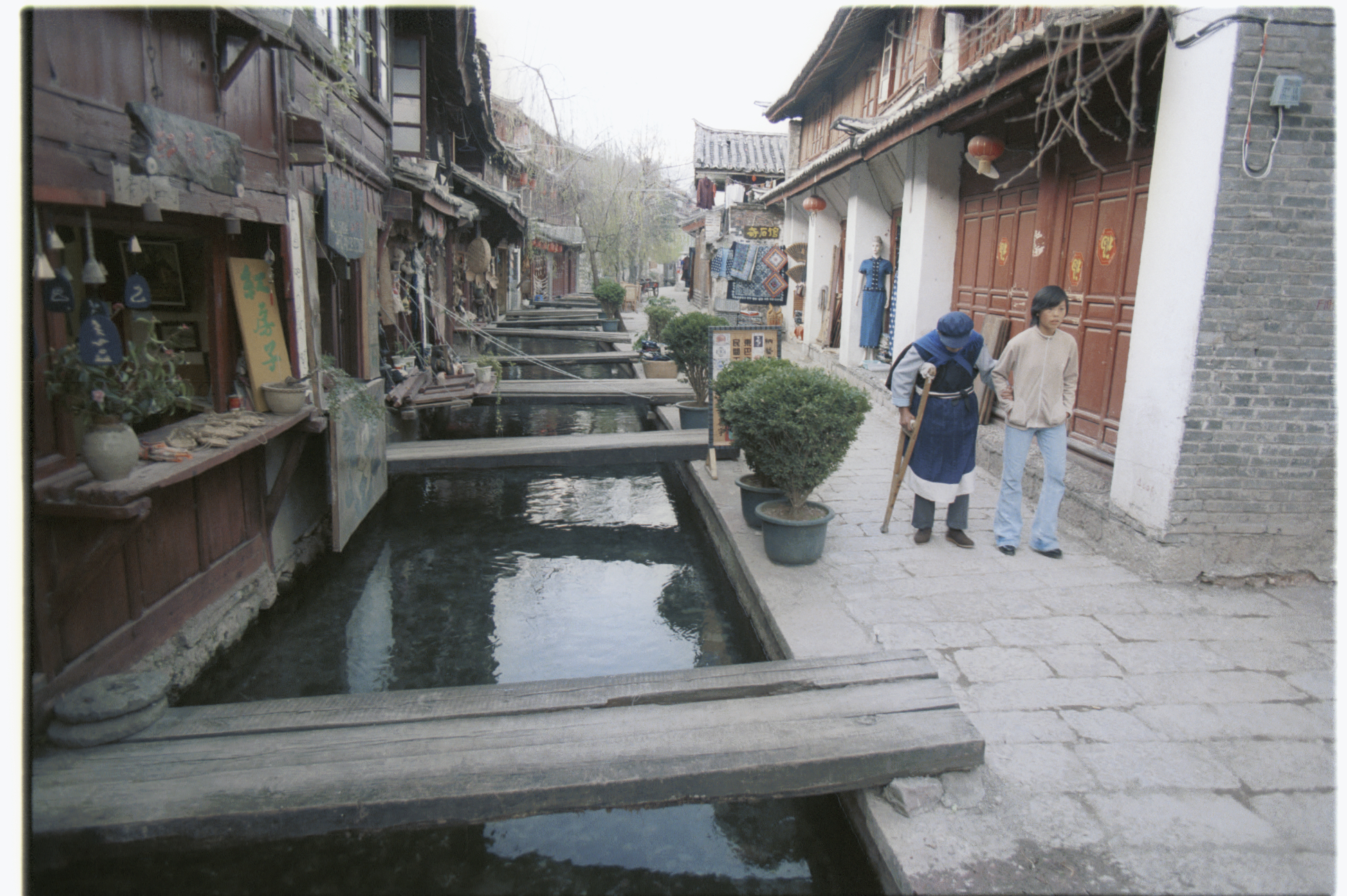 Lijang, China. Blue clothes on left woman is traditional clothes of Nashi people.